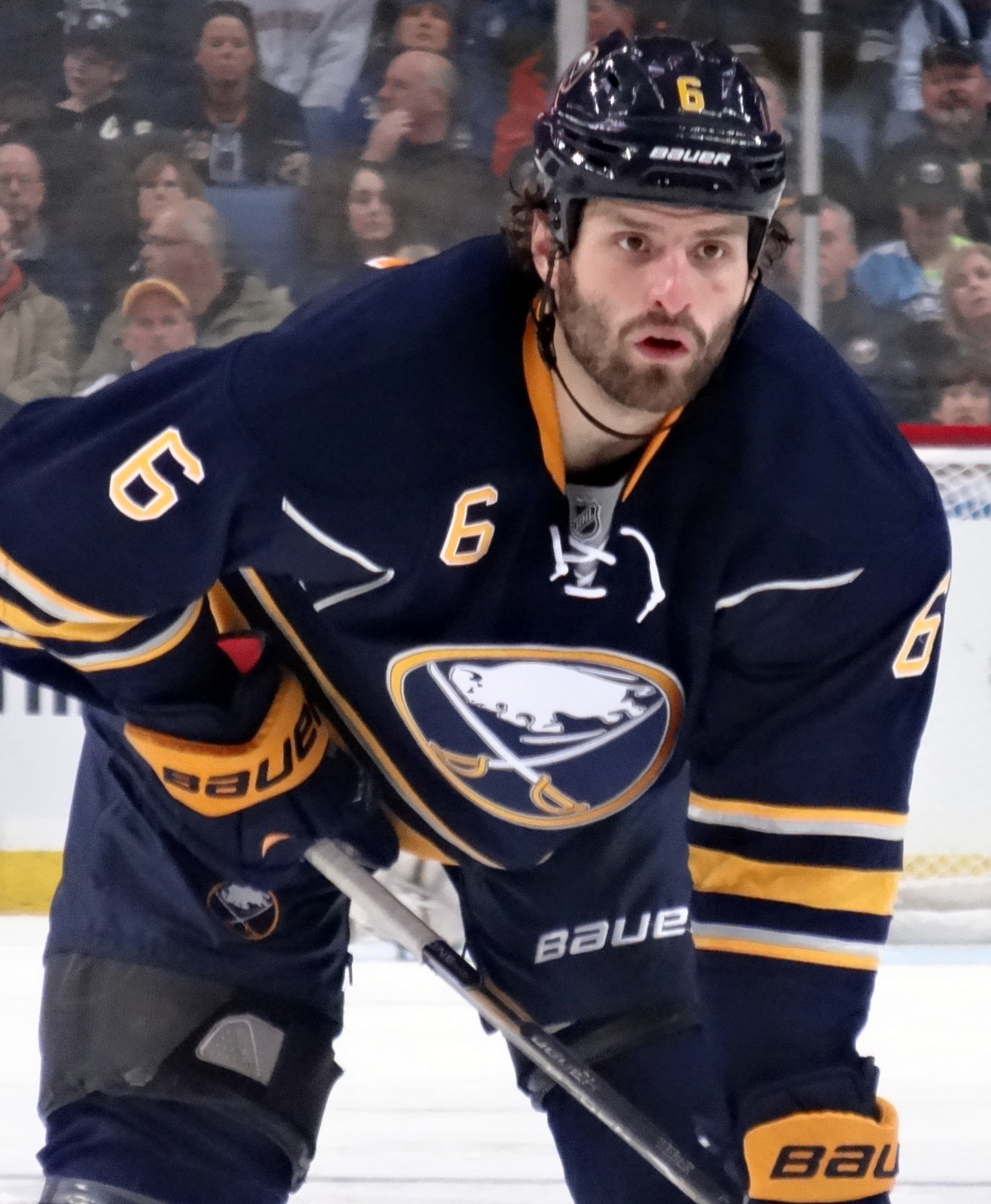 Buffalo Sabres defenseman Mike Weber skates against the Pittsburgh Penguins, February 17, 2013 at First Niagara Center in Buffalo, NY.